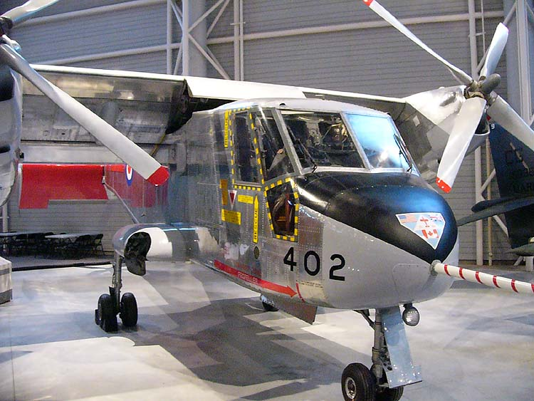 Canadair CL-84 Dynavert serial number CX8402 at the Canada Aviation Museum Rockcliffe (Ottawa) Ontario 09 October 2006